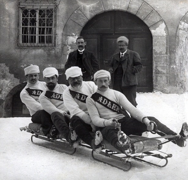 Bobteam from Davos